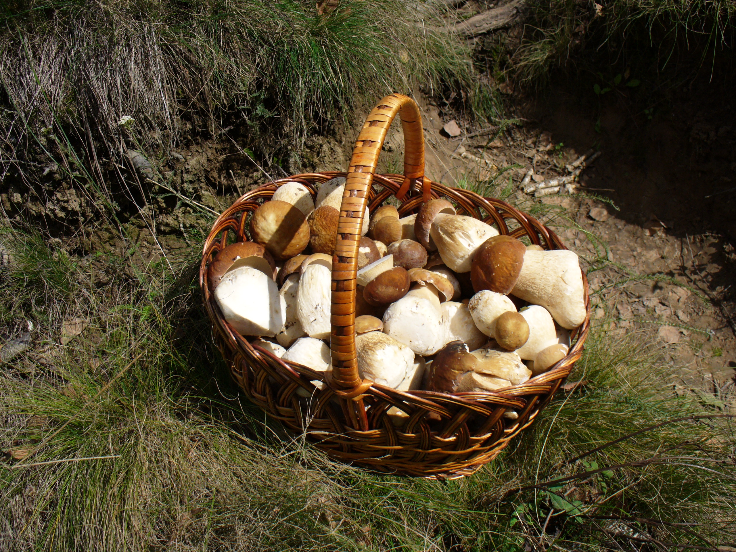 Cep in basket (Boletus edulis)